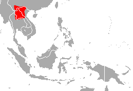 Rhinolophus siamensis range